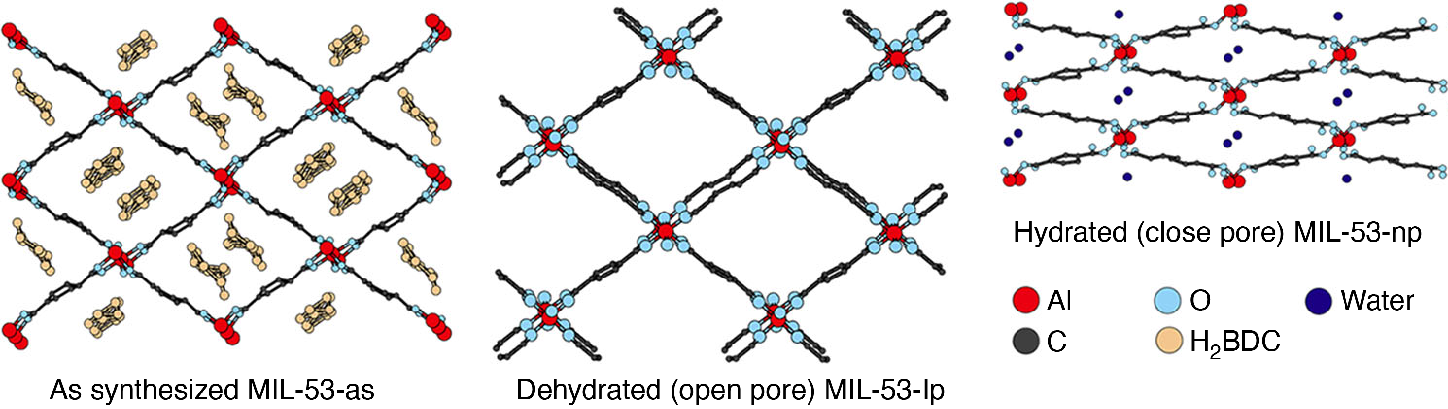 Schematic diagram of the crystal structure of different MIL-53 forms, highlighting the flexibility of this metal-organic framework. Adapted from “Metal-organic framework crystal-glass composites”, J. Hou, C. W. Ashling, S. M. Collins, A. Krajnc, C. Zhou, L. Longley, D. N. Johnstone, P. A. Chater, S. Li, M.-V. Coulet, P. L. Llewellyn, F.-X. Coudert, D. A. Keen, P. A. Midgley, G. Mali, V. Chen and T. D. Bennett, Nature Commun., 2019, 10, 2580.